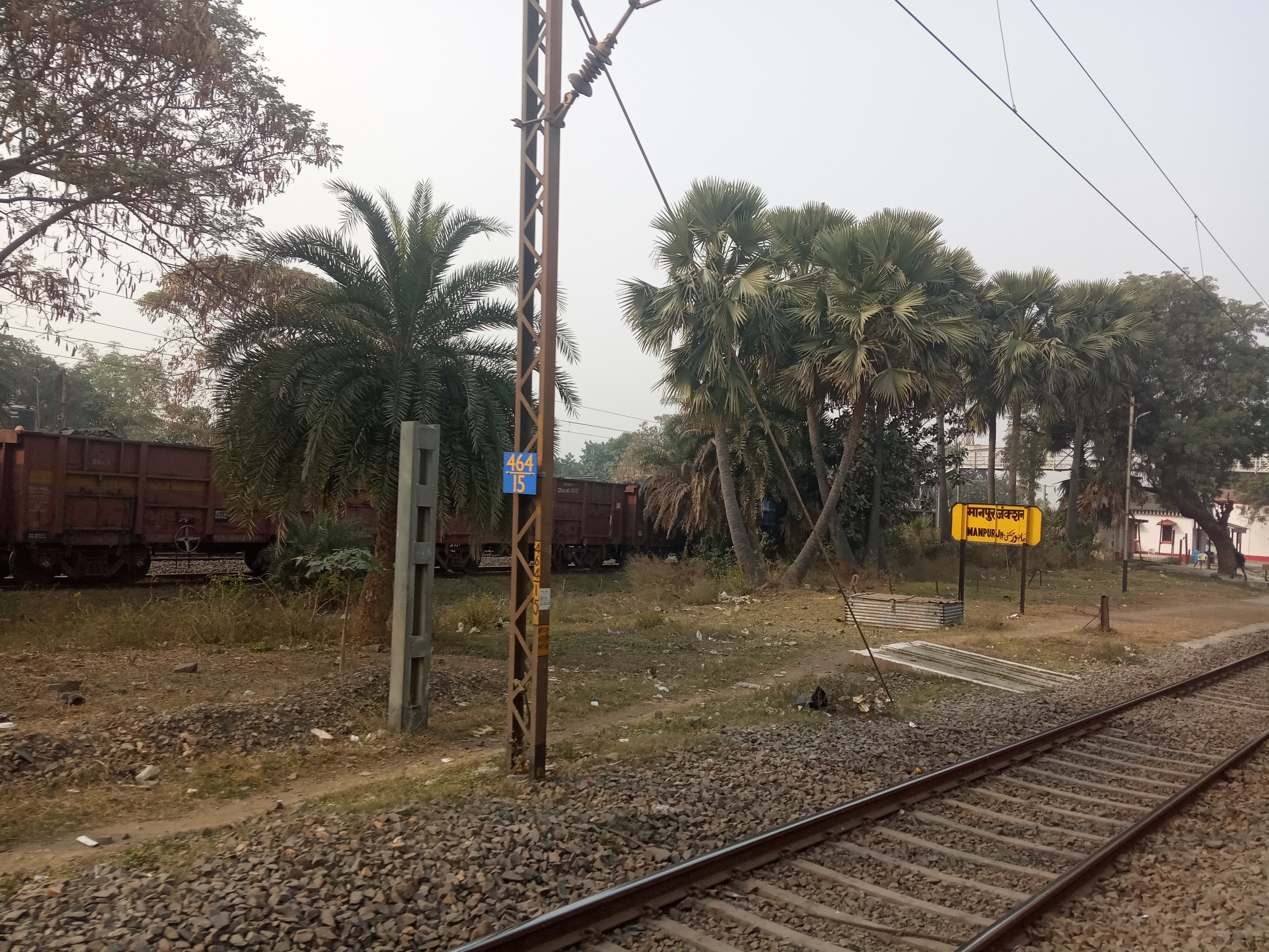 Manpur junction rail station